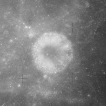 Peek, Mare Smythii, on the moon.